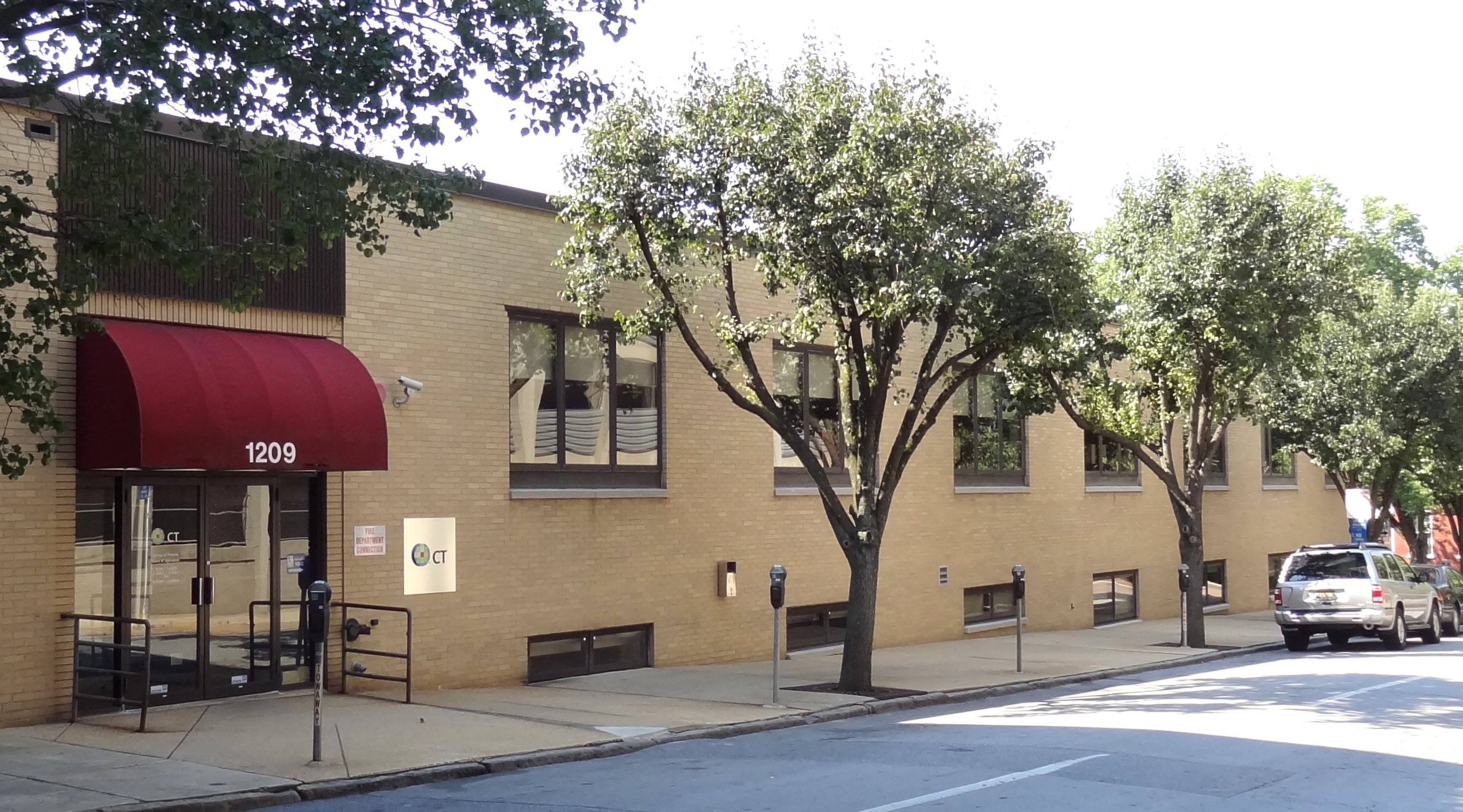 CT Corporation office, 1209 North Orange Street, Wilmington, DE 19801-1120. It is home to over 6,500 corporations, and more than 200,000 businesses hold addresses at the location.